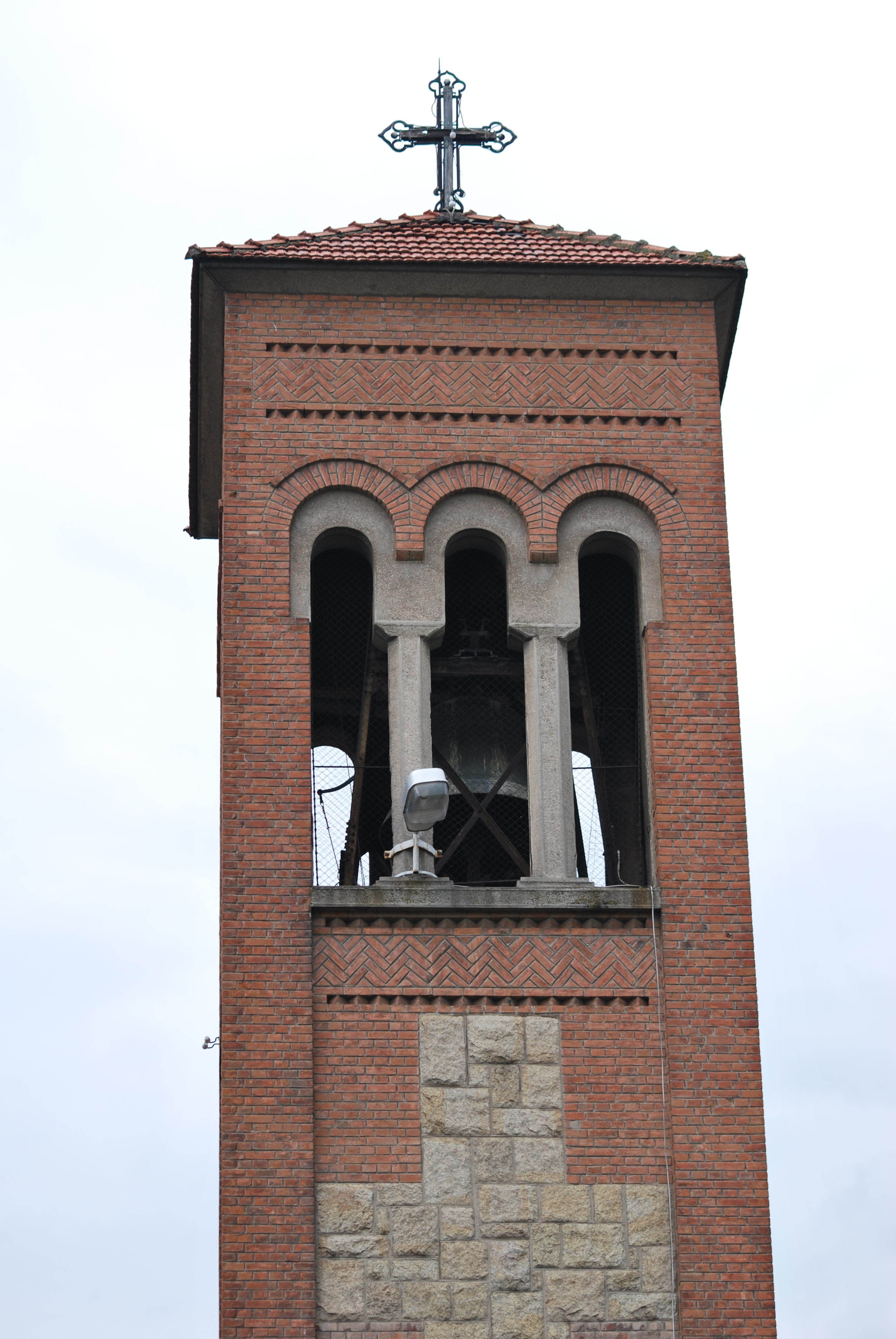 St. Demetrius Church in Bitola, Macedonia